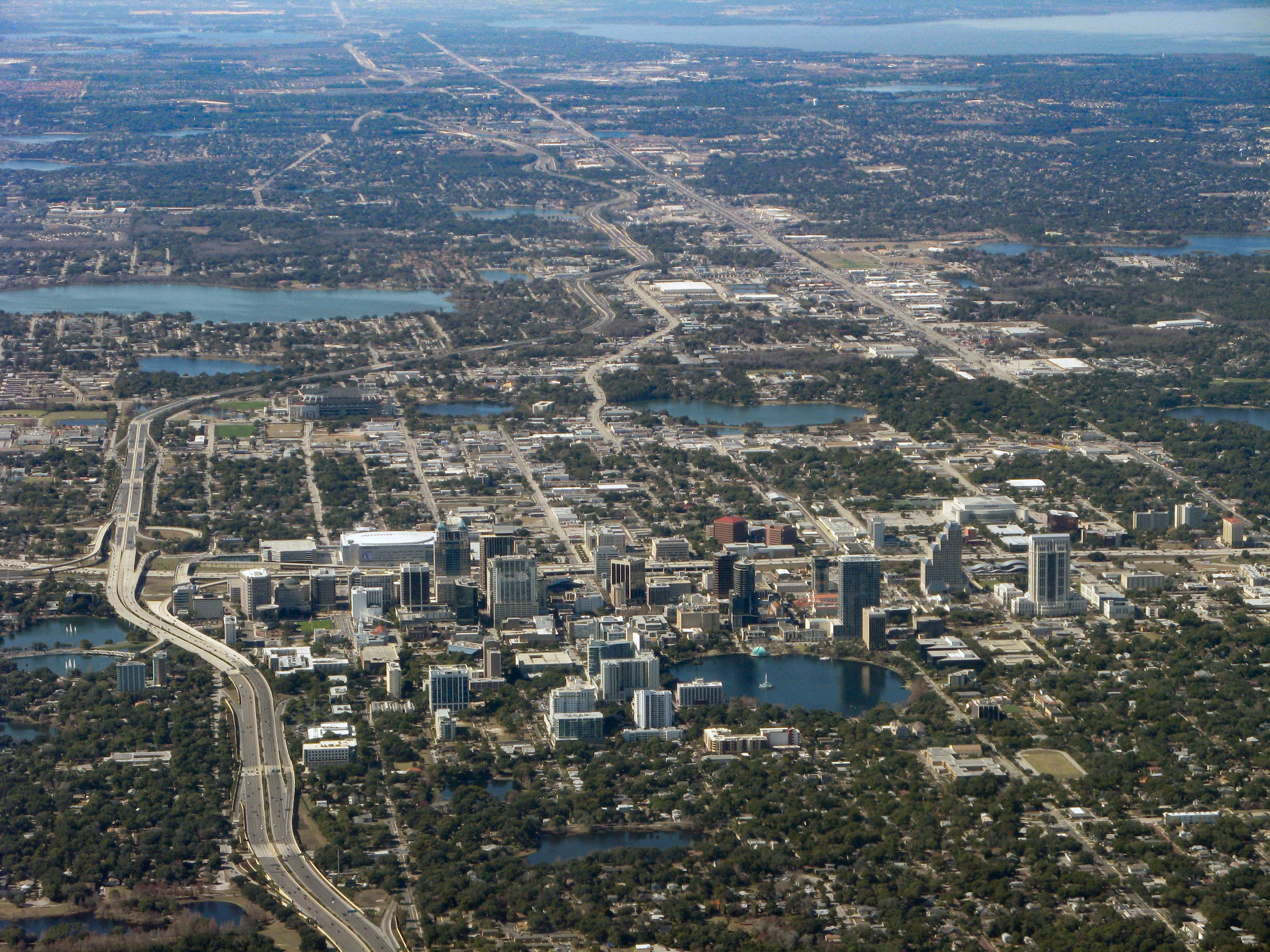 Aerial view of Orlando, Florida from a commercial aircraft. Lake Apopka is in the upper-right corner; Florida State Road 50 connects the city to past the lake; Florida State Road 408 is on the left-hand side.